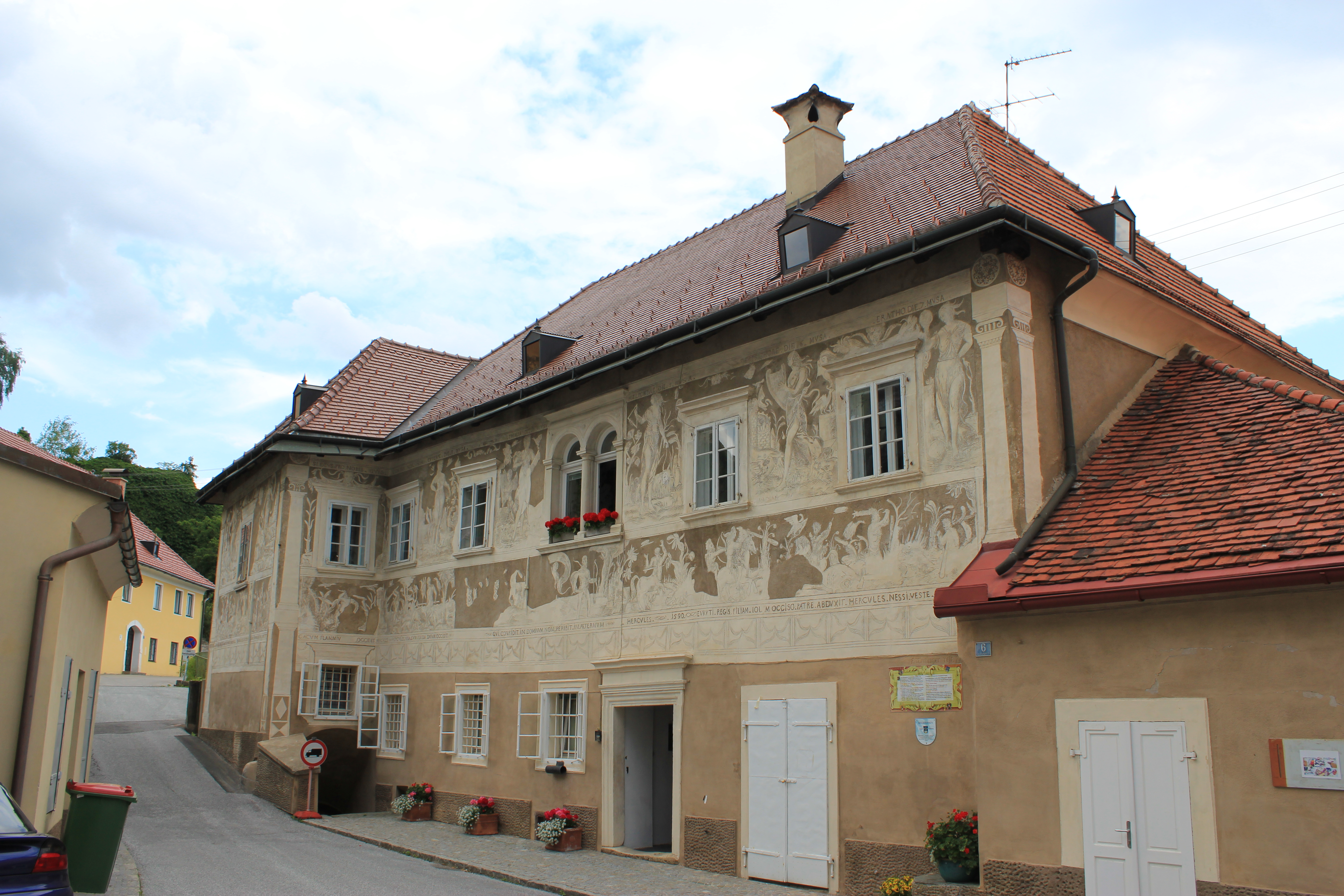 House Salzburger Platz 6 in Althofen